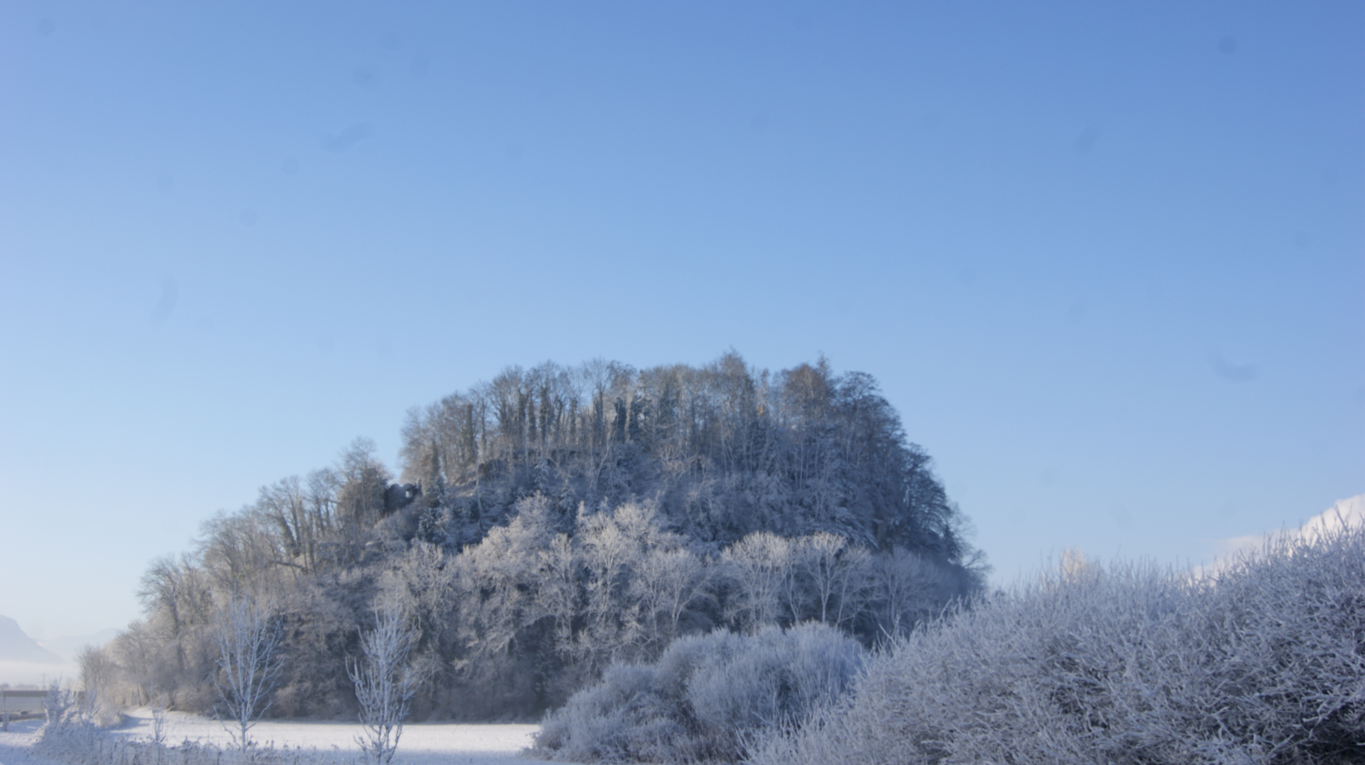 Castle hill in Koblach (Vorarlberg, Austria), nature reserve, in the picture the ruin Neuburg.